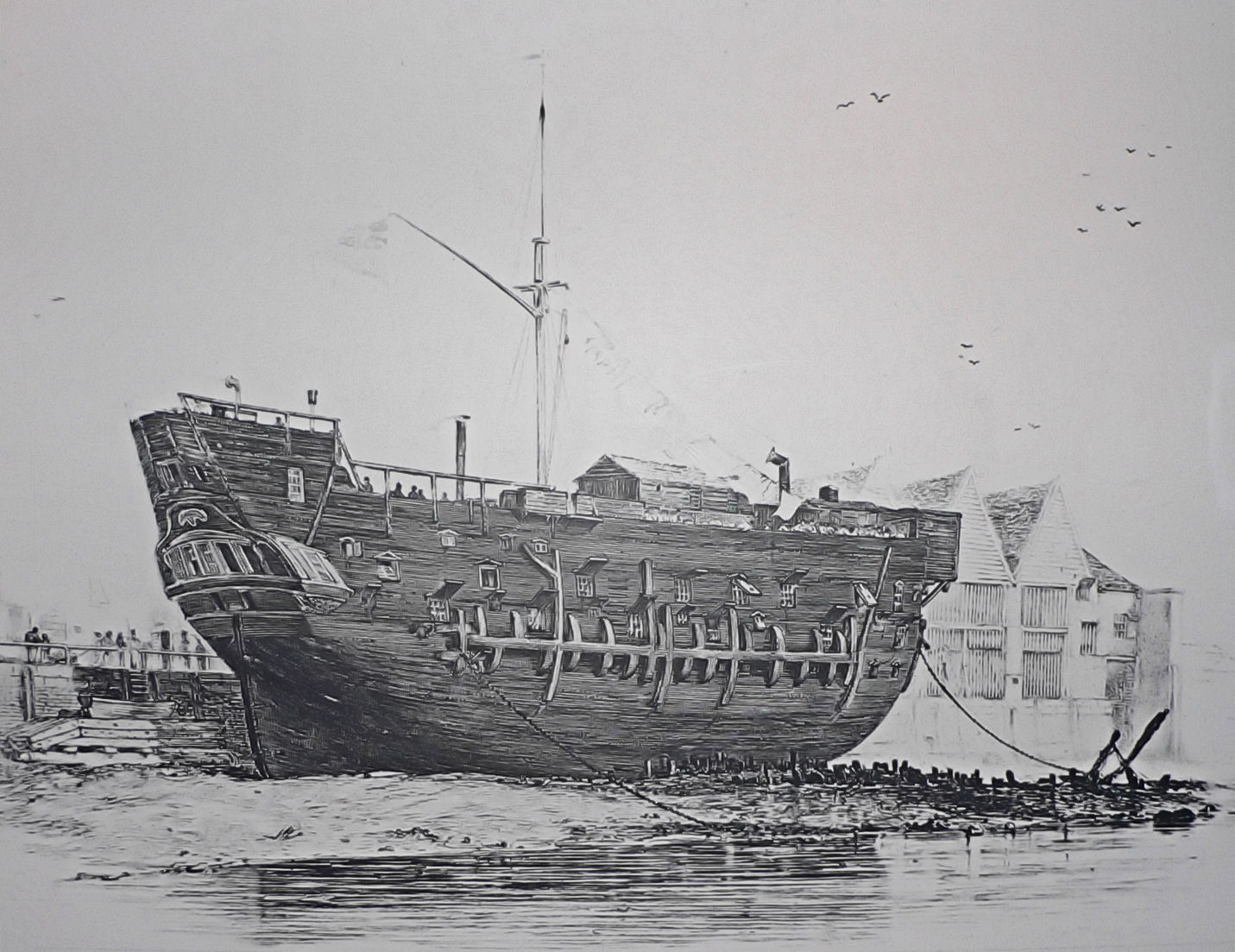 The forbidding form of the beached convict ship, Discovery, at Deptford. Launched as a 10 gun sloop at Rotherhithe, in 1789, the ship served as a convict hulk from 1818-34.